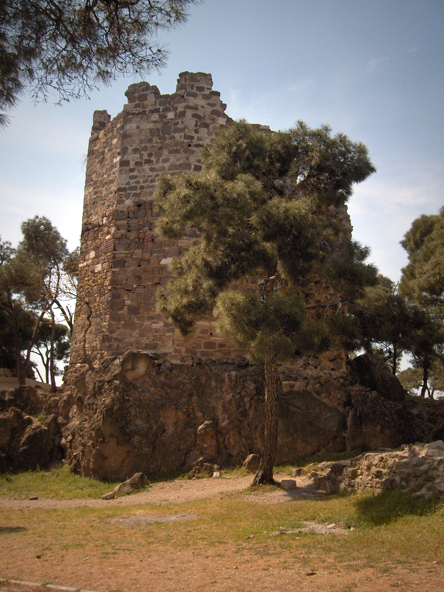 Watch tower of the castle built by Lysimachos about 300 BC; Kadifekale (Izmir, Turkey); built in the period of Alexander the Great